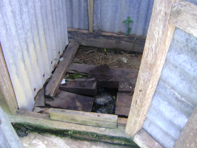 unknown school Picture from EU-Sida-GTZ Ecosan Promotion Project (EPP), Kenya